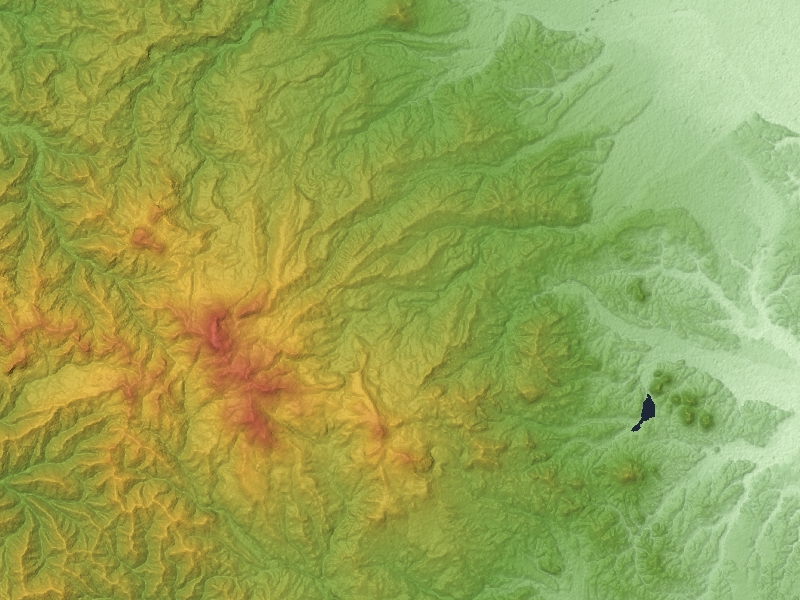 Mount Funagata (Funagata-yama) is a volcano in the border between Miyagi and Yamagata prefectures, Honshu, Japan.